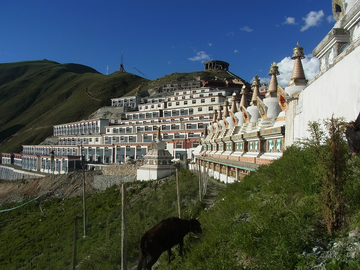 Döndrub Ling Monastery (Gyegu Gompa) was reconstructed at its original site (2013)